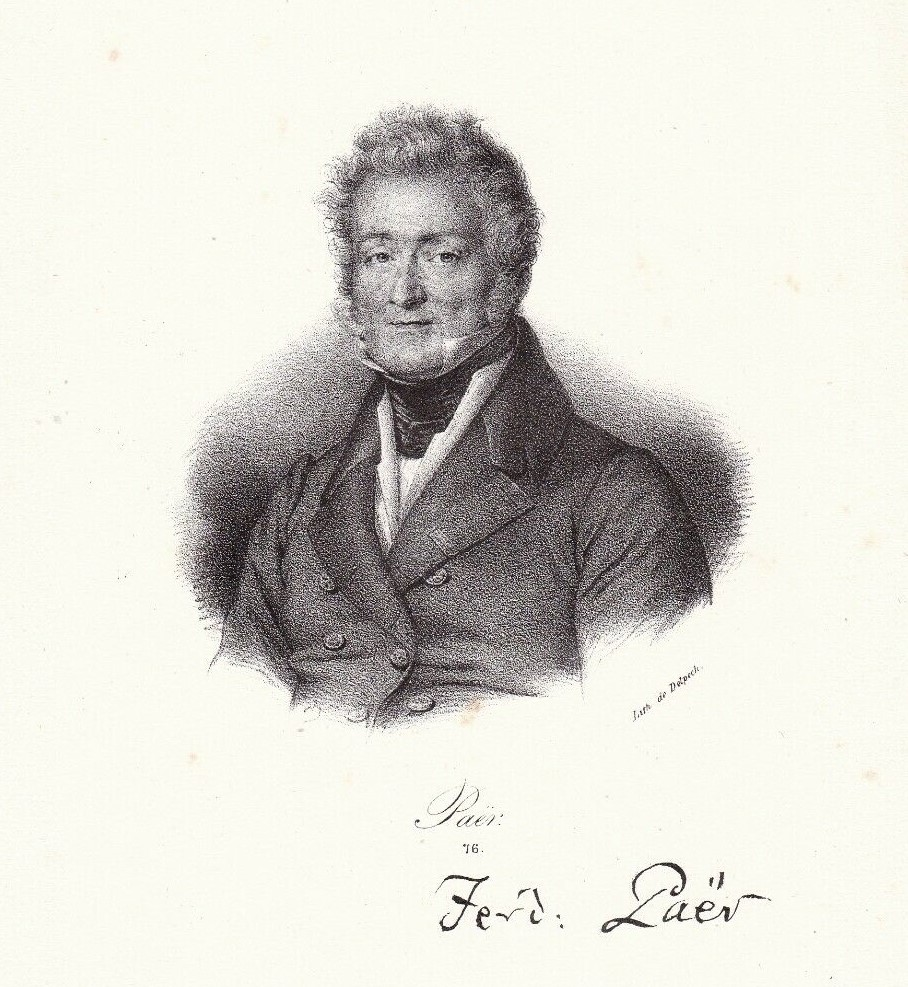 Portrait of Ferdinando Paer (1771-1839), Italian composer